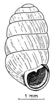 Drawing of apertural view of a shell of Pupilla muscorum